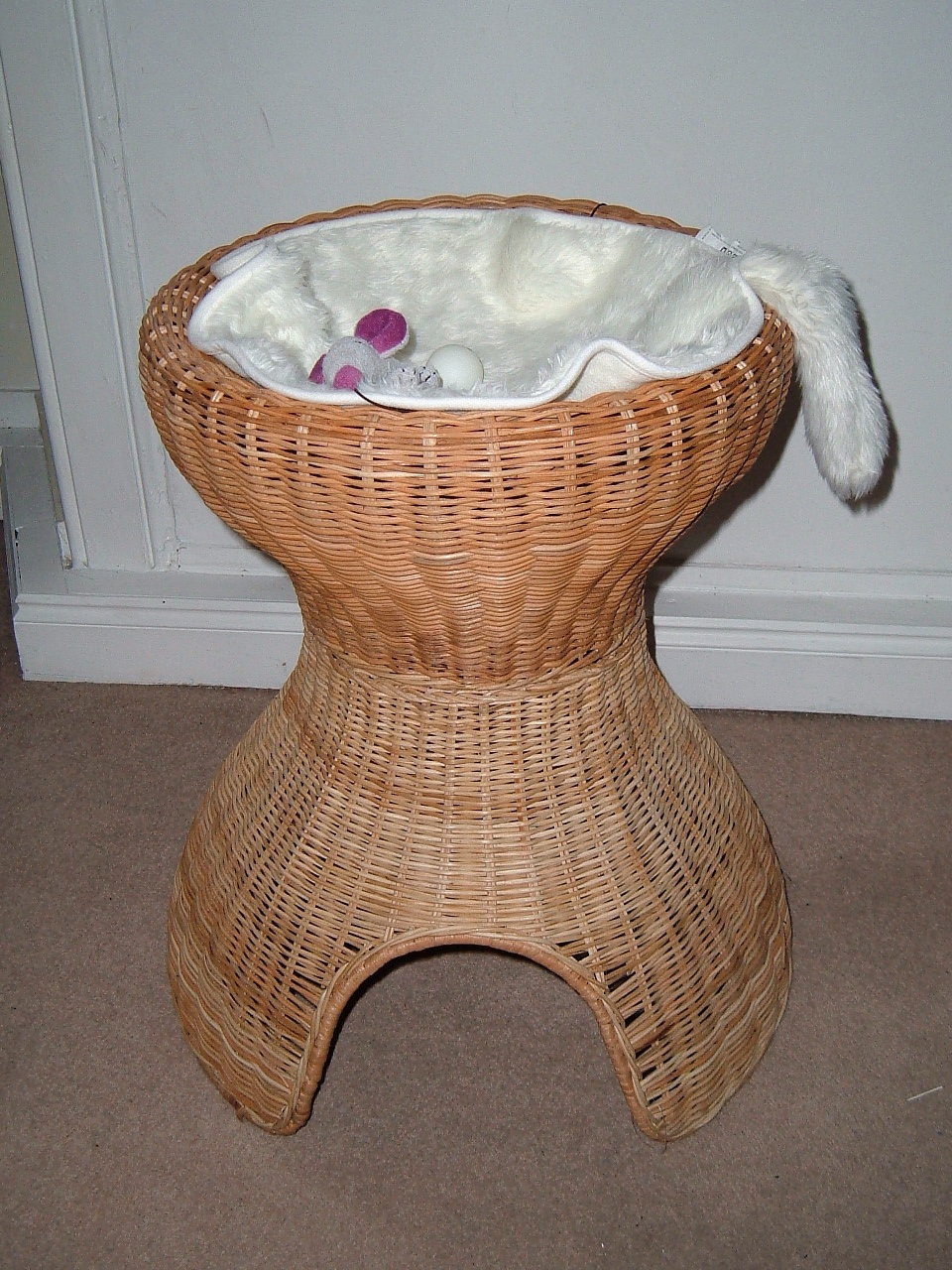 Picture of a wickerwork cat pole.